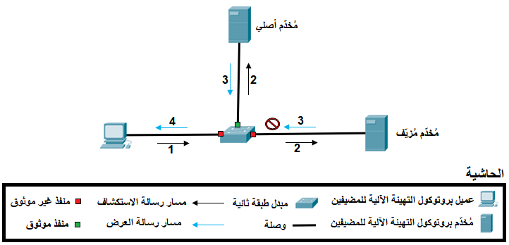 Example of how does DHCP snooping work.